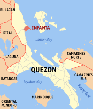 Map of Quezon showing the location of Infanta